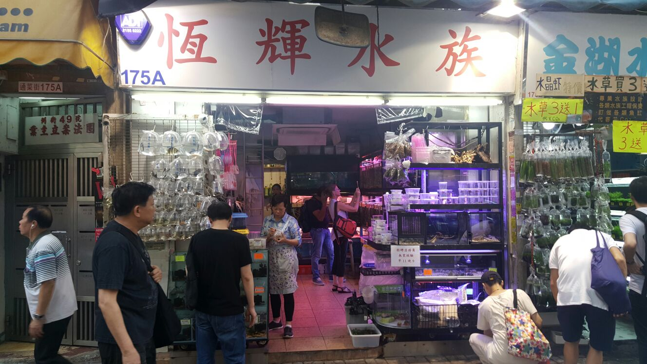 One of the shops selling fish on goldfish street (tungchoi street), called aqualife aquarium, 恆輝水族 in chinese.